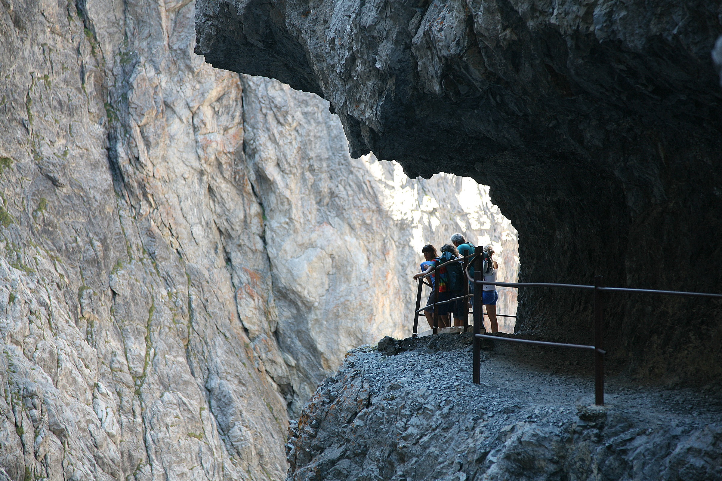 Uina Canyon, Swiss Alps